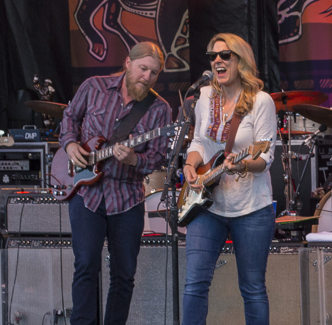 Outdoor performance.